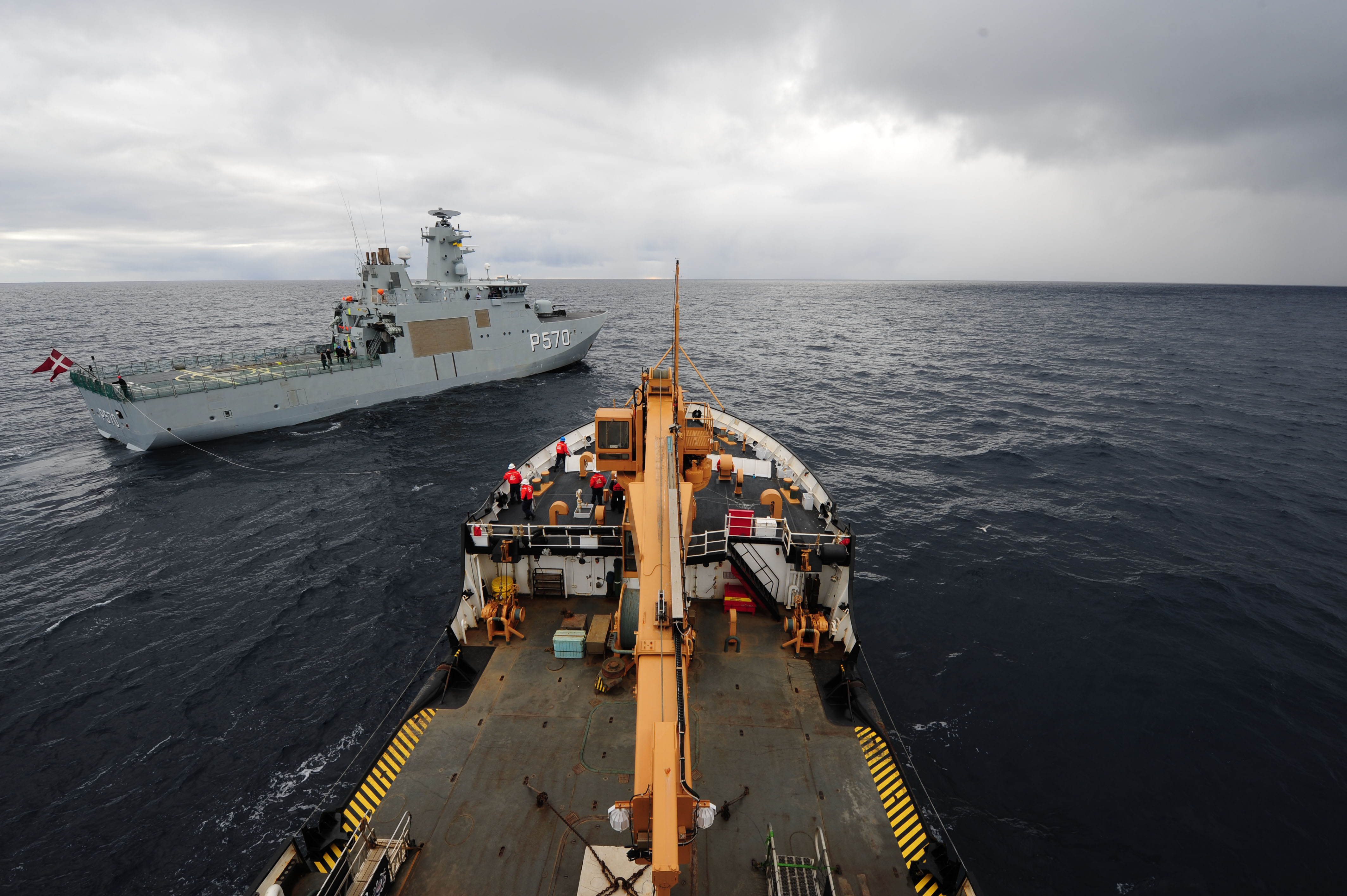 Original caption: “The HMDS Knud Rasmussen, a Royal Danish Navy patrol vessel, transits off the bow of the U.S. Coast Guard Cutter Juniper, homeported in Newport, R.I., during a towing exercise while underway off Greenland's west coast Friday, Sept. 7, 2012. The exercise was conducted as part of an Arctic deployment to enhance interoperability with international forces and to provide the experience of working and responding to incidents in the harsh Arctic environment. (U.S. Coast Guard photo by Petty Officer 3rd Class Cynthia Oldham)” VIRIN = 120830-G-NB914-216